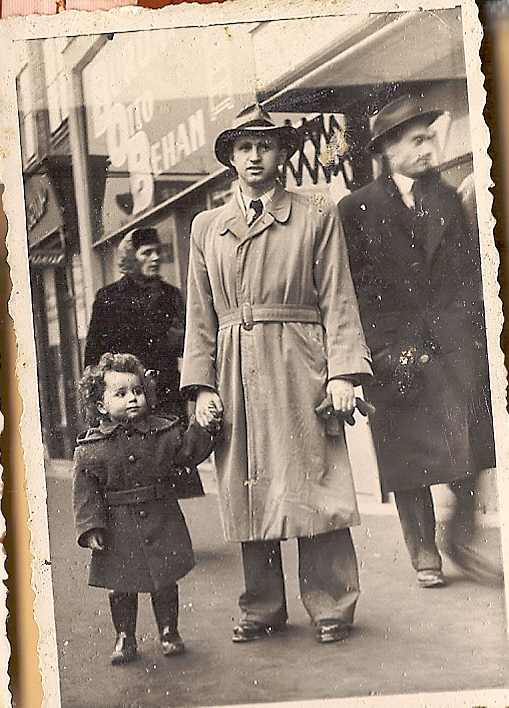 Tuvia Friedman and his nephew Amir Kangunamir kangun is the son of bella and boris kangun father of roni kangun and tomer kangun has b a degree from quuenns college new york at buisness adminisration and economic and m a from zurich univercity in zurich switzerland and 2 years of medicine studies at the univercity of bolognia italy 2 years of studies and license in diamonds from antwerpen belguim institute of gemological antwerpen his grandson bar avichai kangun son of tomer and yonit kangun was born 15.5,15 at tel aviv founder and historian writer of autobiogrphy of his uncle nazi hunter tuvia friedman and inhereted all his rights at thousands of books and videos and inhereted the appartment in haifa tchernichovski 55 street in haifa